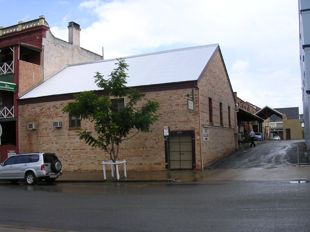 Wharf Street Warehouse, Gataker's Warehouse Complex